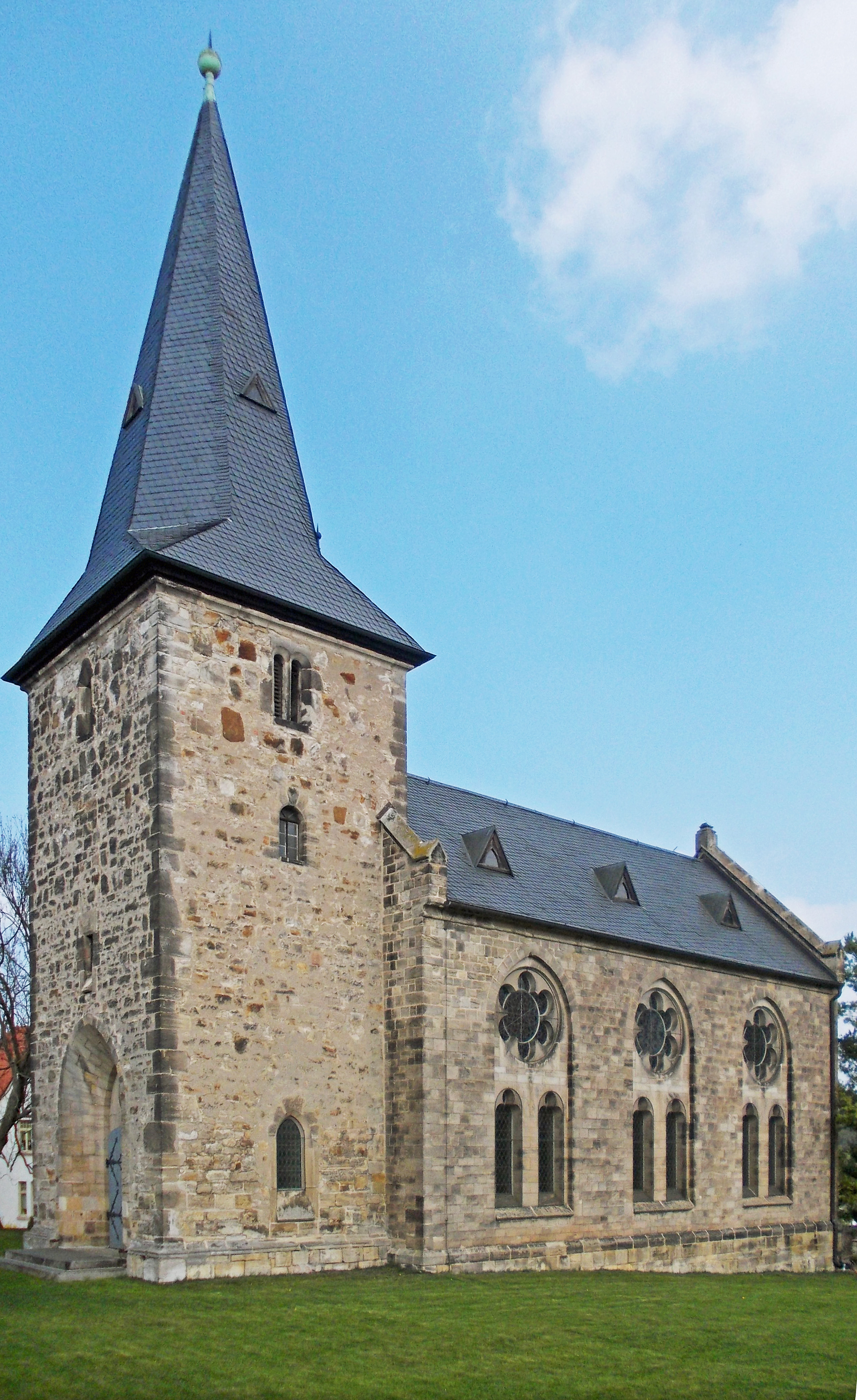 Poserna church (Lützen, district: Burgenlandkreis, Saxony-Anhalt)